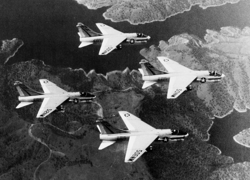 Four U.S. Navy LTV A-7B Corsair II (BuNo 154474, 154518, 154489, 154477) from Attack Squadron VA-155 Silver Foxes in flight. VA-155 was assigned to Carrier Air Wing 19 (CVW-19) aboard the aircraft carrier USS Oriskany (CVA-34) for a deployment to Vietnam from 5 June 1972 to 30 March 1973.